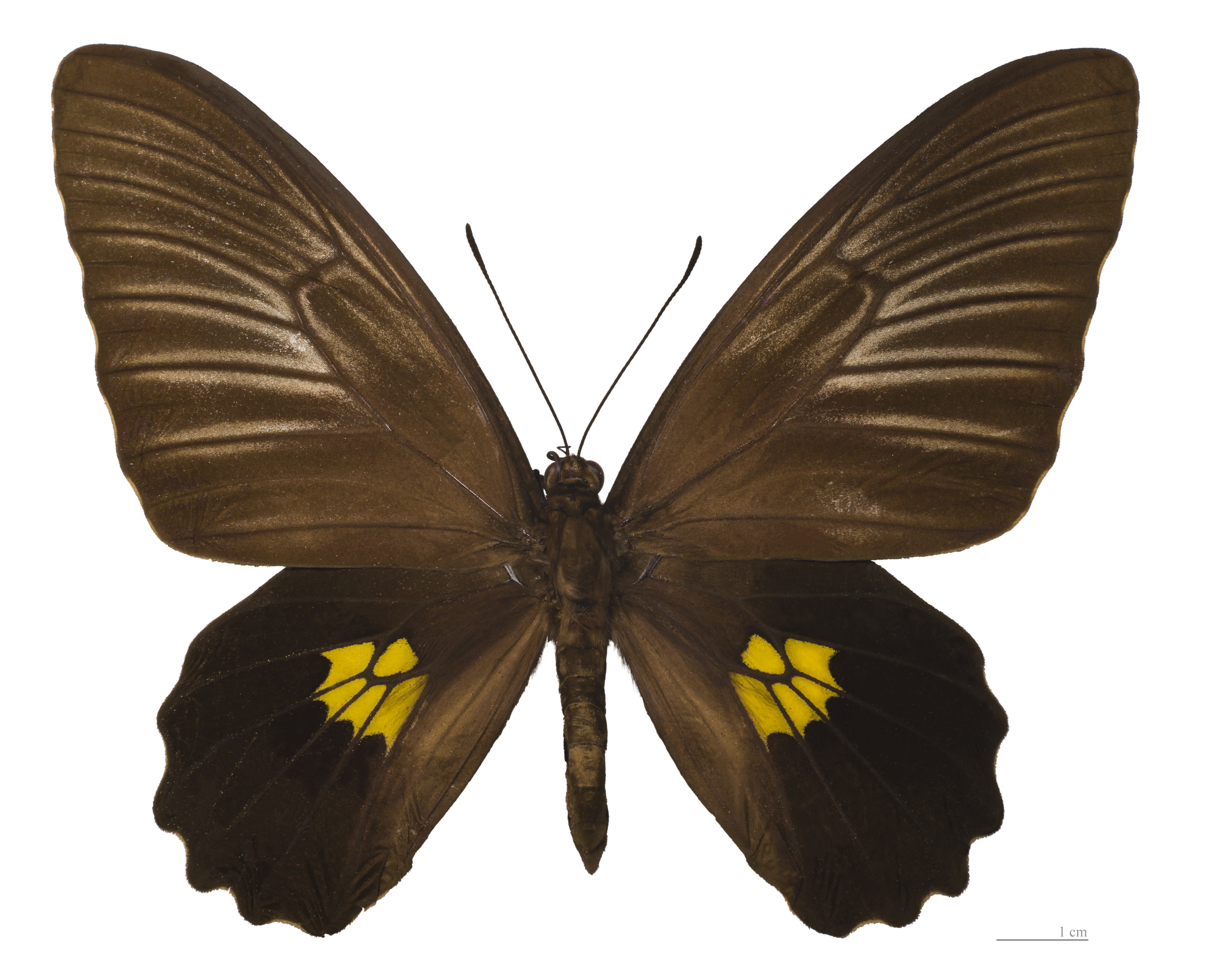 ♀ - Dorsal side Locality: Leti Islands, Leti Islands, Indonesia